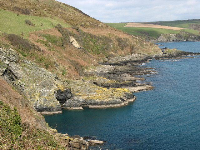 Lansallos: coastline Section of coastline from Pencarrow Head looking north east back to Lansallos.